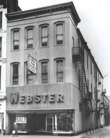 Central Pennsylvania Business College when it was still located on Market Street in Harrisburg.